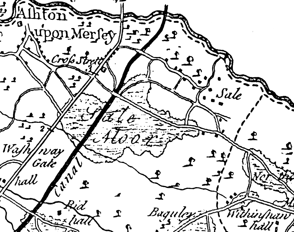 Part of a map of Cheshire, focused on the area around Sale, Greater Manchester